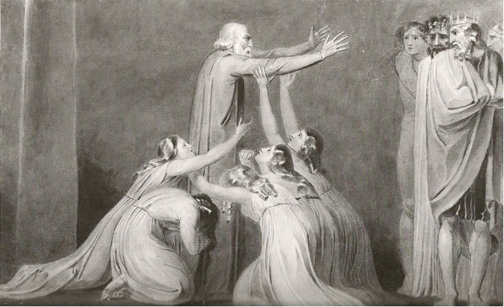 'Tiriel Denouncing his Sons and Daughters' (Illustration from Tiriel)